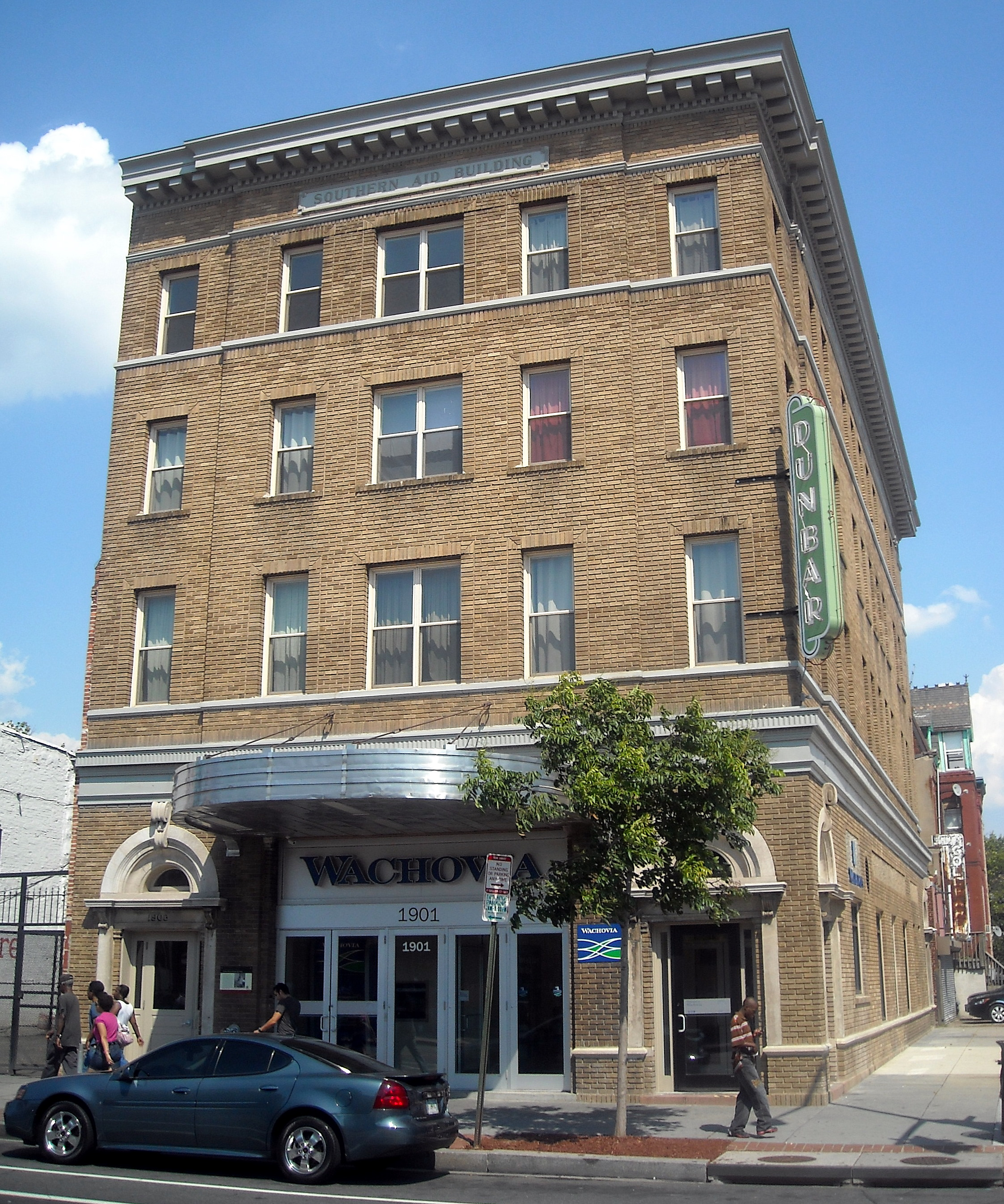 Dunbar Theatre, also known as the Southern Aid Society Building, at 1901-1903 7th Street, NW in the Shaw neighborhood of Washington, D.C. The building is listed on the National Register of Historic Places.